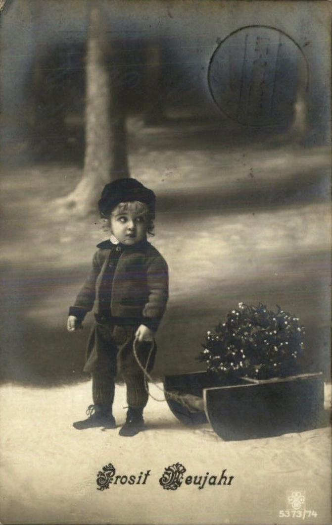 Postcard showing little boy pulling sled in snow. Postmarked Brakel 24-12-13 (=December 24, 1913)